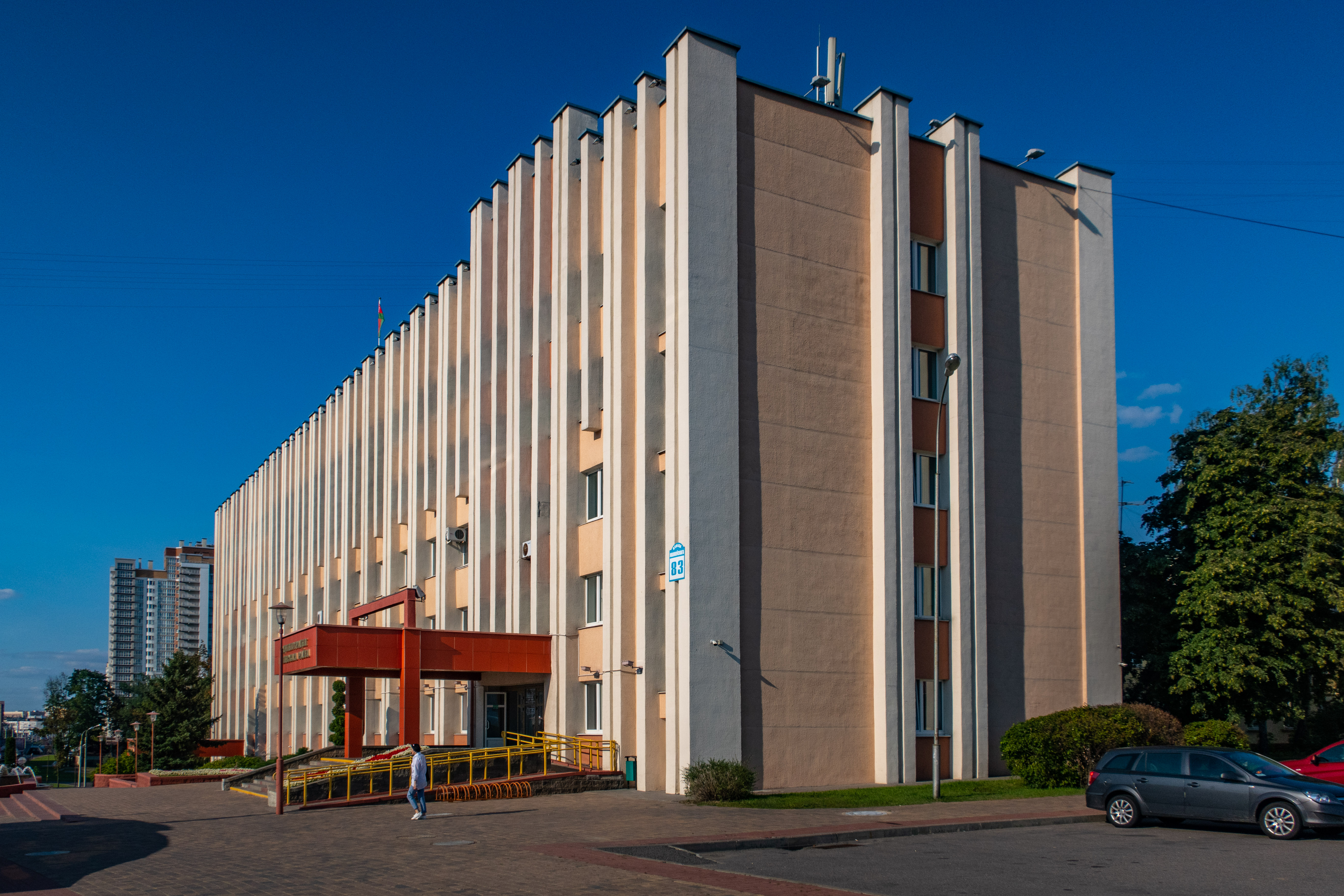 Administration of Lieninski (Leninsky) district of Minsk. Majakoŭskaha street. Minsk, Belarus